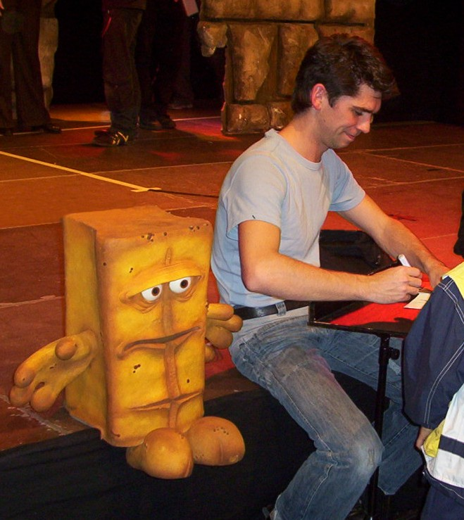 Puppeteer Jörg Teichgraeber, shown here with the “Bernd das Brot” puppet, signs an autograph